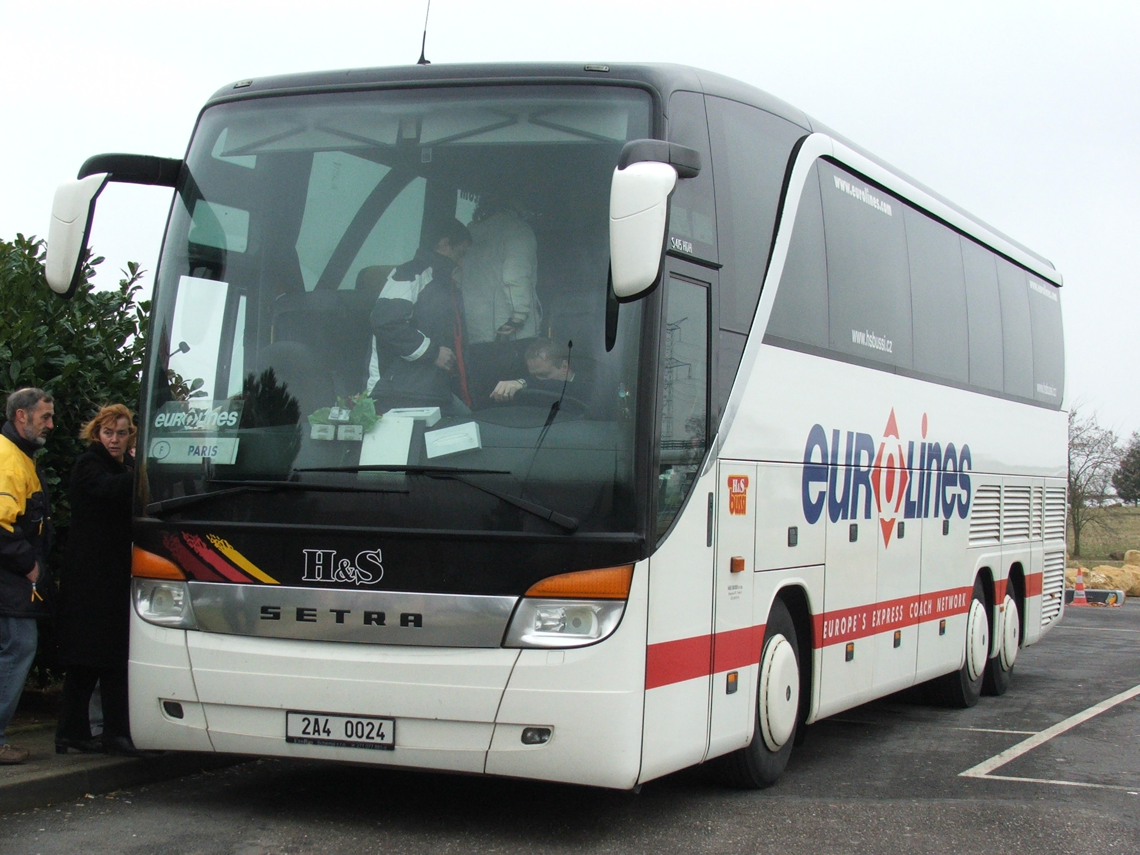 Setra Eurolines bus based in Czechia, going from Prague to Paris.